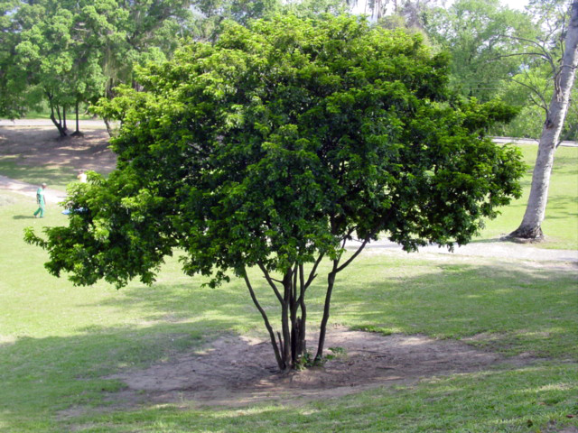 Caesalpinia echinata in Quinta da Boa Vista's garden, Rio de Janeiro. Photo by M. A. P. Accardo Filho.